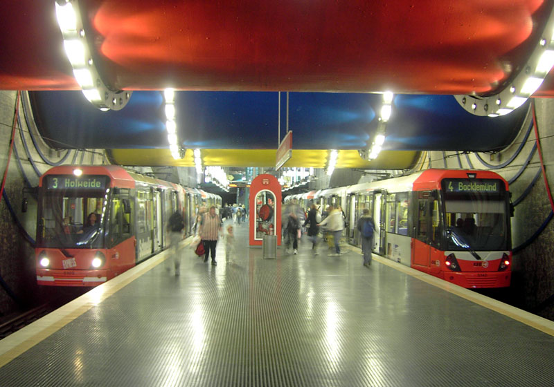 Two type K5000 LRV (Bombardier Flexity Swift) in Cologne at Äußere Kanalstraße station